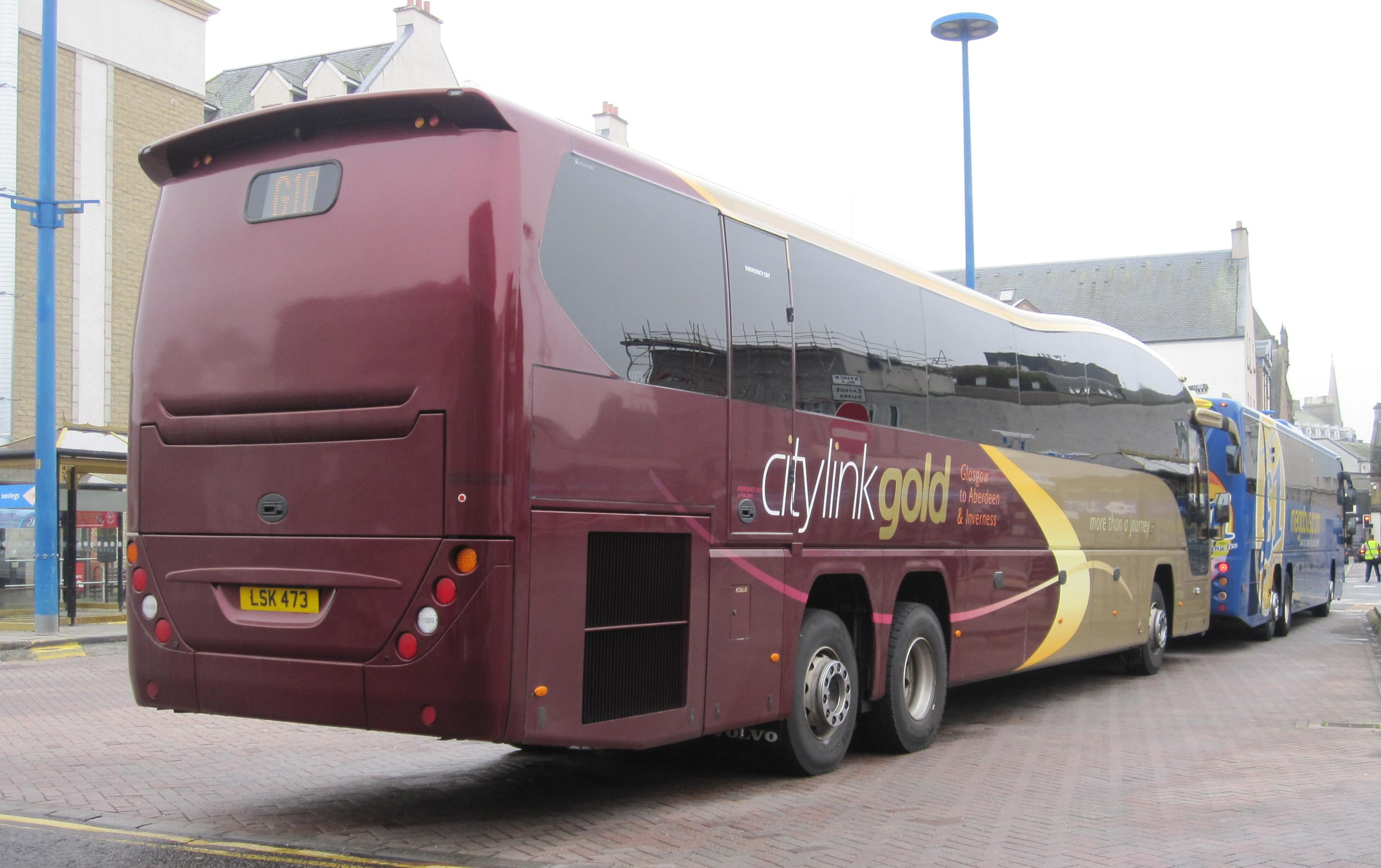 Parks of Hamilton LSK 473 Citylink Gold